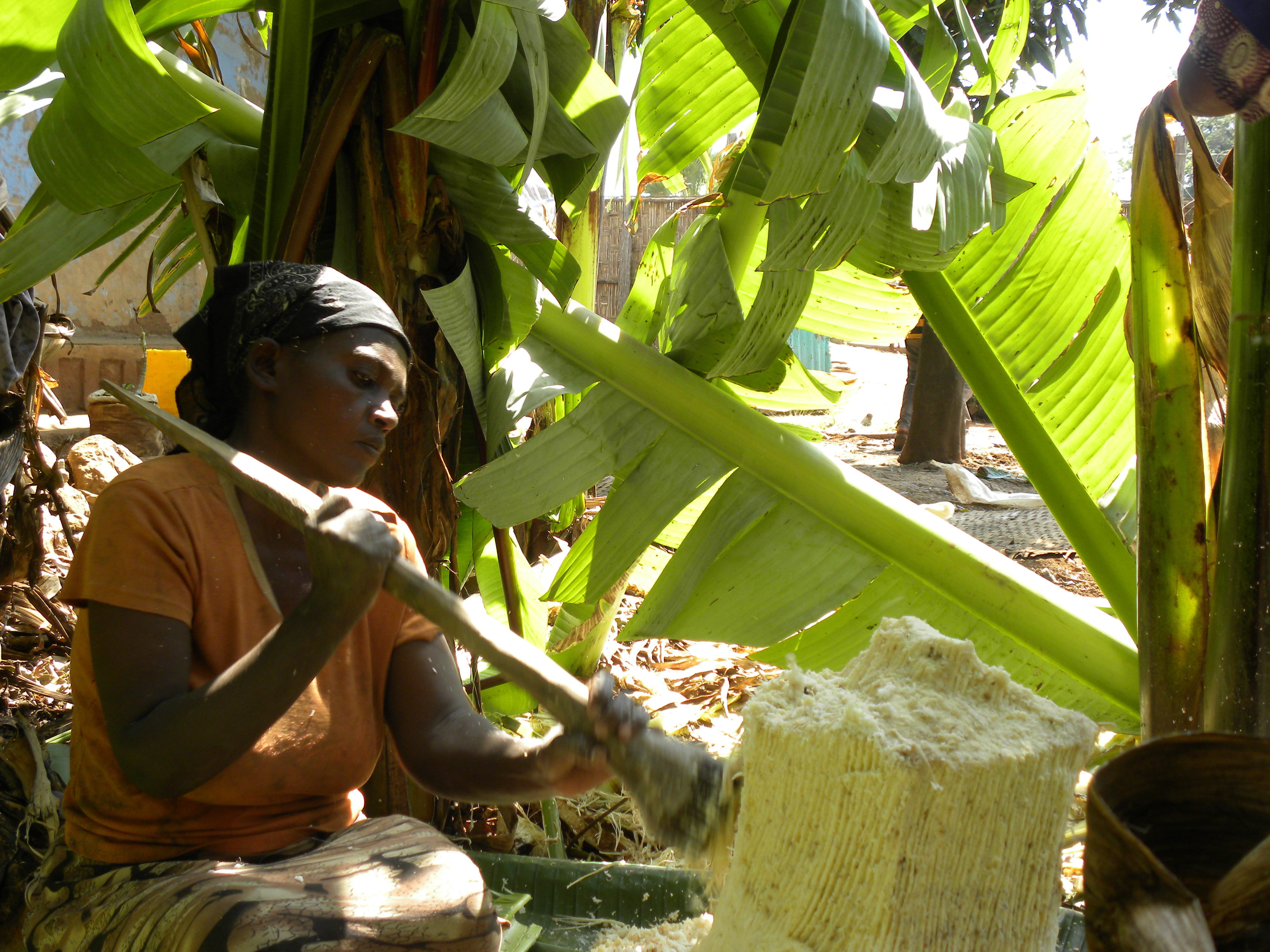 A Kambaata woman extracting the edible part from an enset, the staple food-crops in Kembata Tembaro Zone